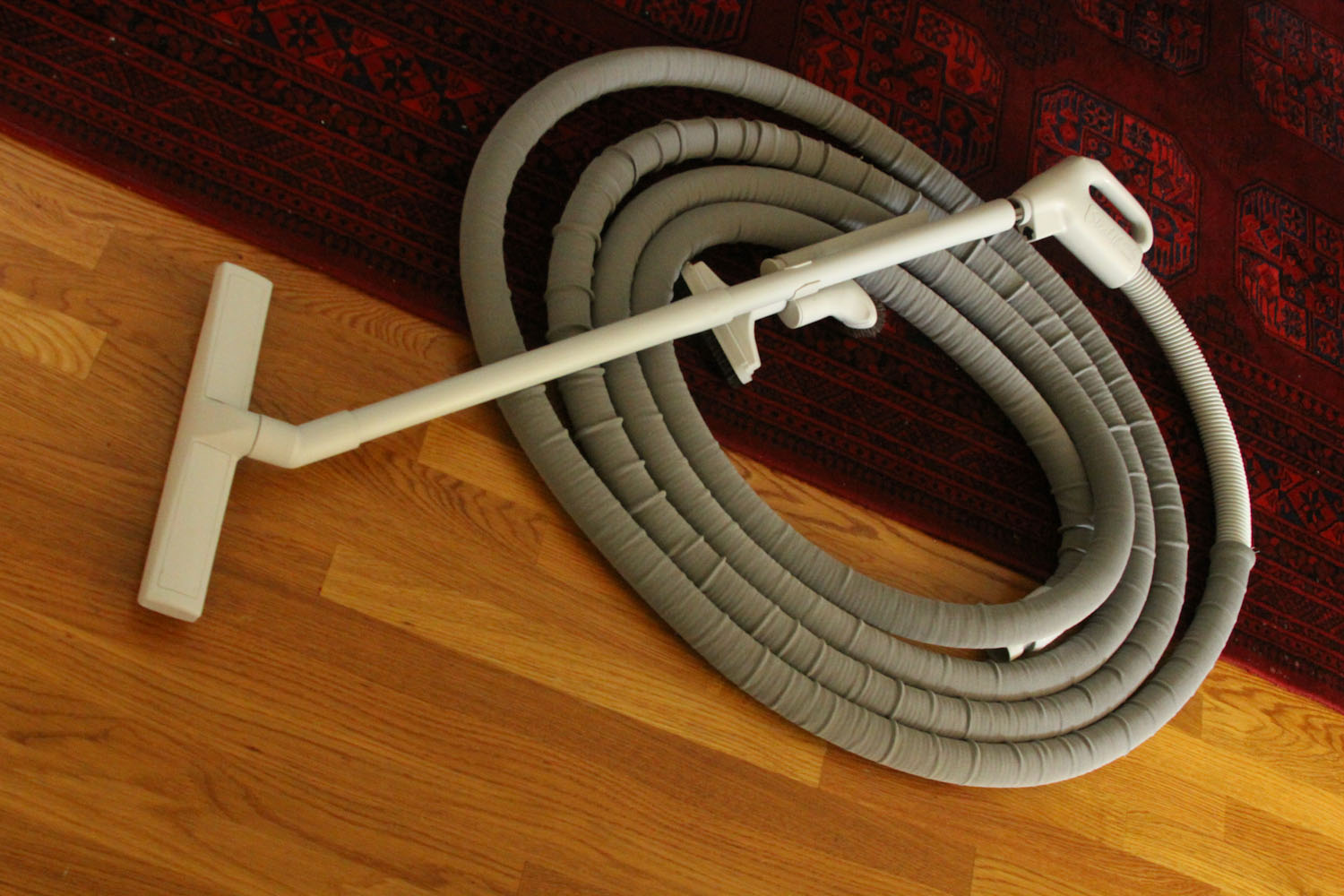 Tube for a central vacuum cleaner